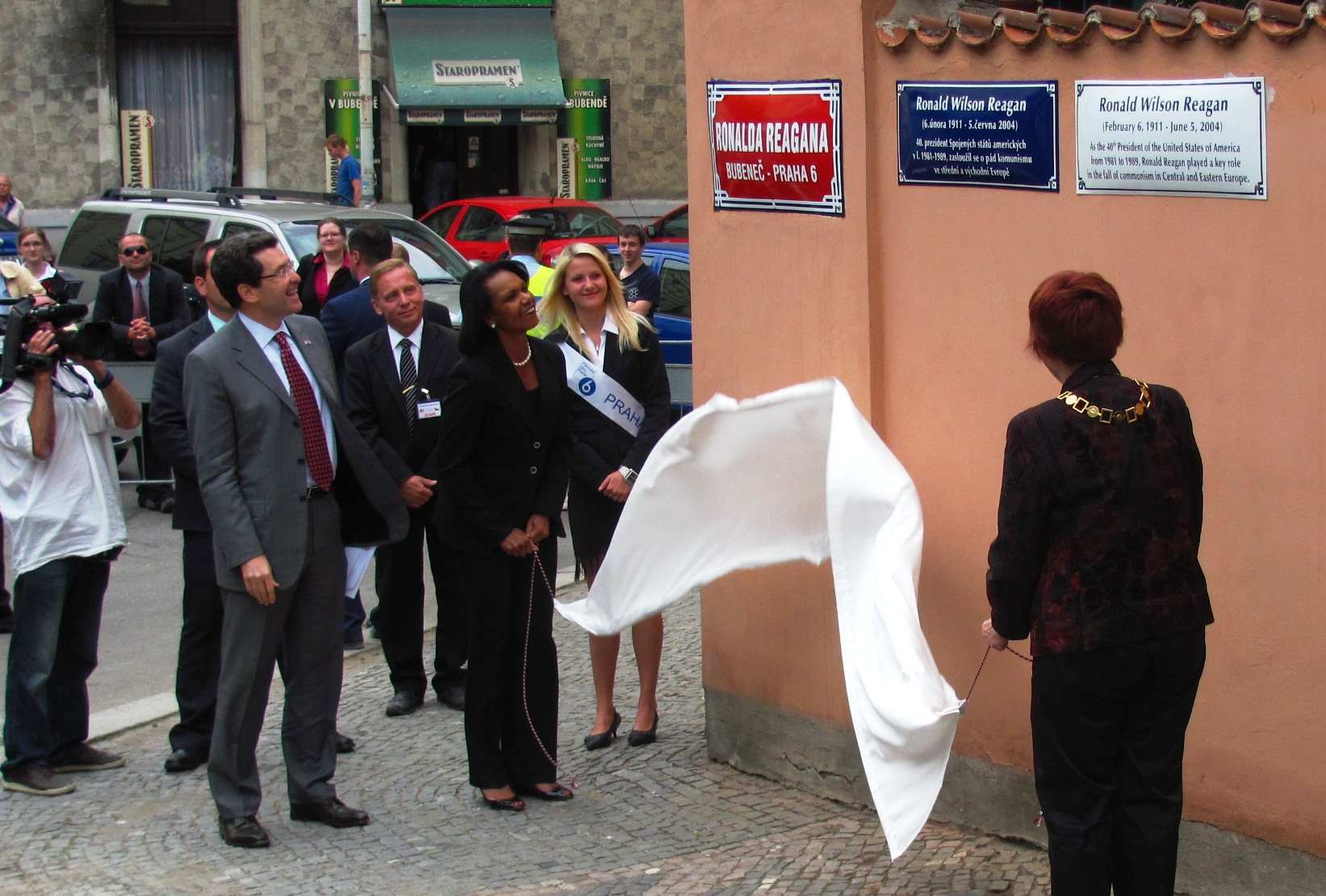 The Ronald Reagan Centennial celebration in Prague (2011). Ms.Condoleezza Rice, Fmr.Secretary of State in the center.